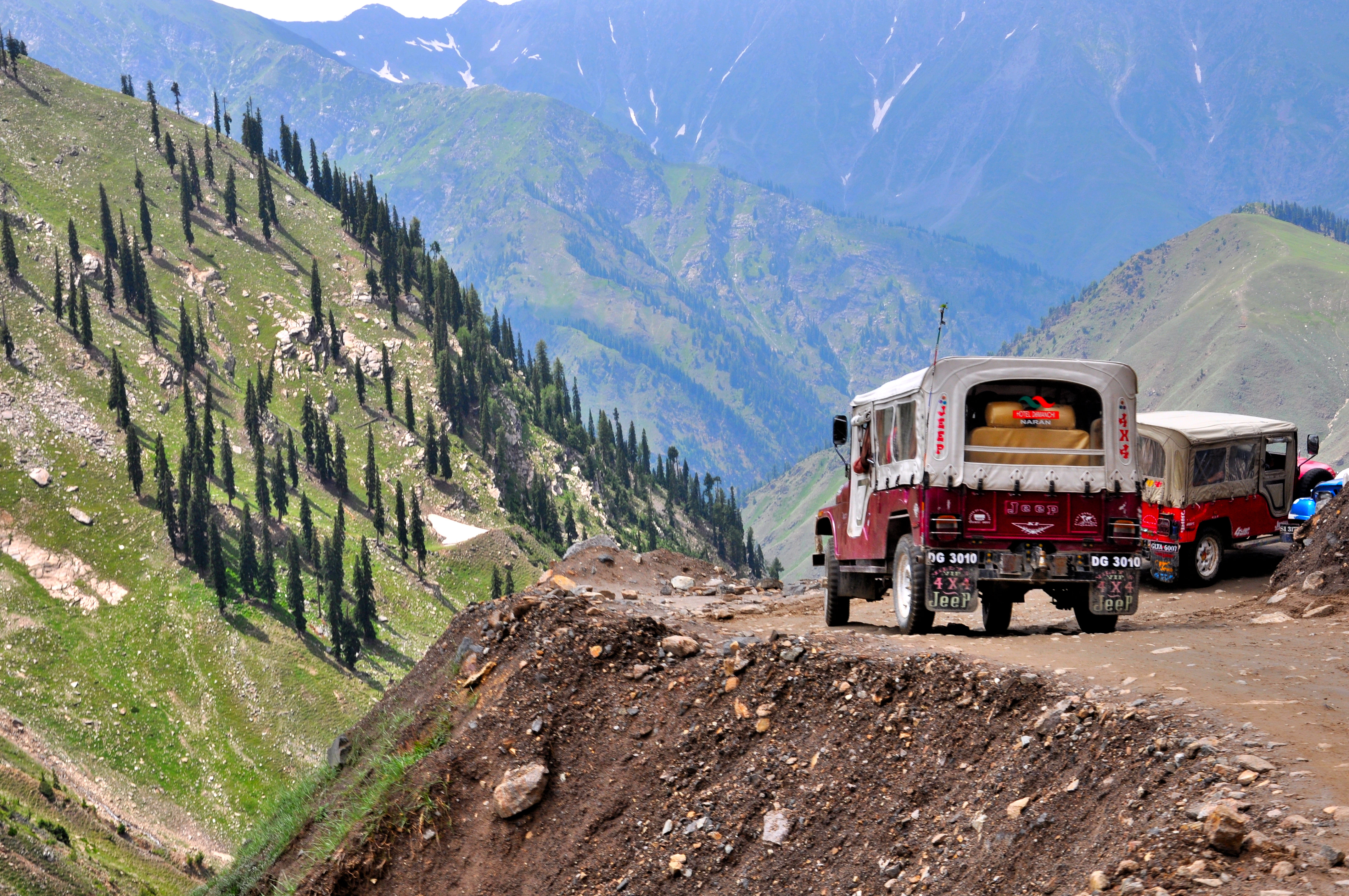 On the way to Saif ul malook lake.